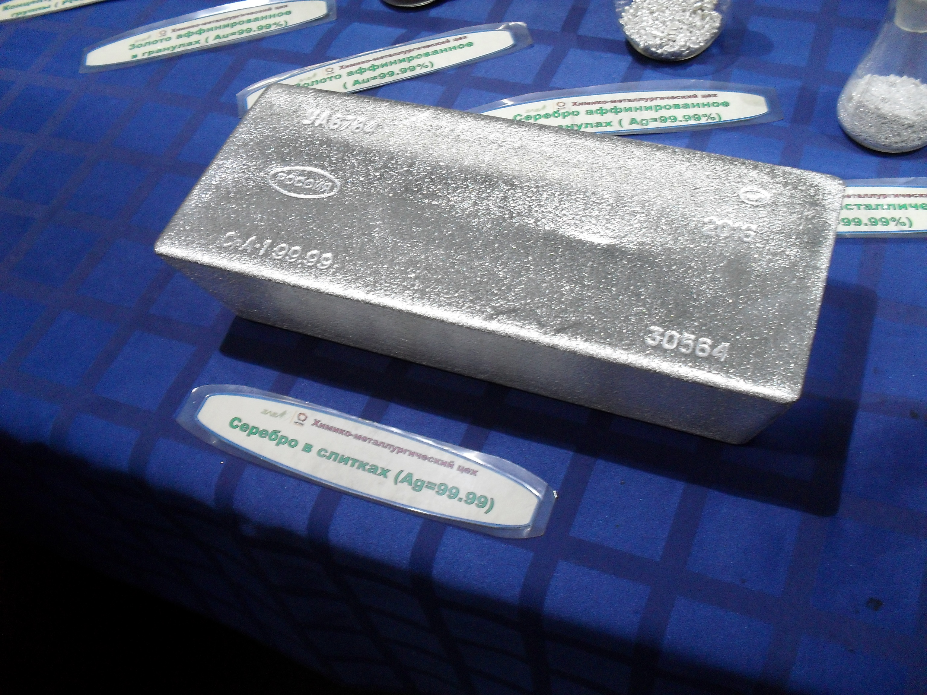 Uralelectromed silver bar 2016 Ag 99 99, see also zoomed: File:Ag 99 99 Uralelectromed.jpg